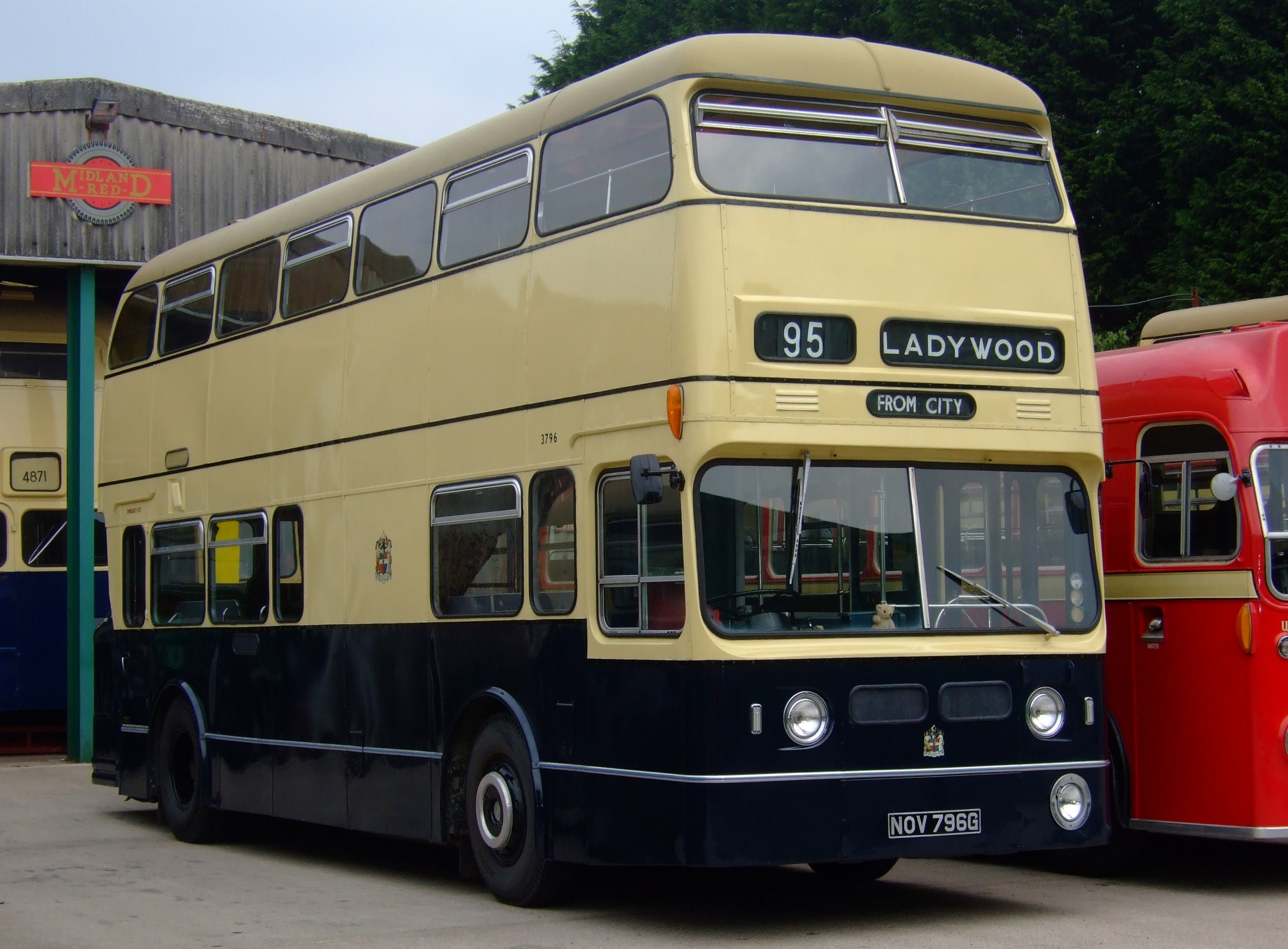 Daimler Fleetline CRG6LX with Park Royal H43/29D body, registration NOV796G. Allocated fleet number 3796, this bus was part of the last batch of vehicles delivered to Birmingham City Transport (BCT) in 1968/9. It spent most of its working life operating for the West Midlands Passenger Transport Executive, which absorbed the BCT fleet in October 1969. It was withdrawn from passenger service in 1983 and is now in preservation in its original BCT livery. (DVLA) Daimler ?cc Heavy Oil first registered 6 December 1968